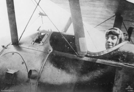 Captain Thomas Charles Richmond Baker DFC, MM & Bar, a pilot in the Australian Flying Corps, seated in the cockpit of a Sopwith Camel.